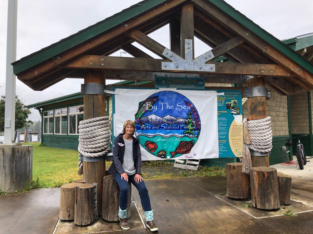 Had a great time yesterday celebrating Alaska’s marine economy and lifestyle at the 9th Annual “By The Sea” Arts and Seafood Festival in Coffman Cove. It was a day filled with beautiful hand-made art, live music, unique vendors, great conversation, and amazing Alaskan seafood.